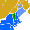 Non-Native Nations claims, not control, over countries now under the NAFTA Treaty